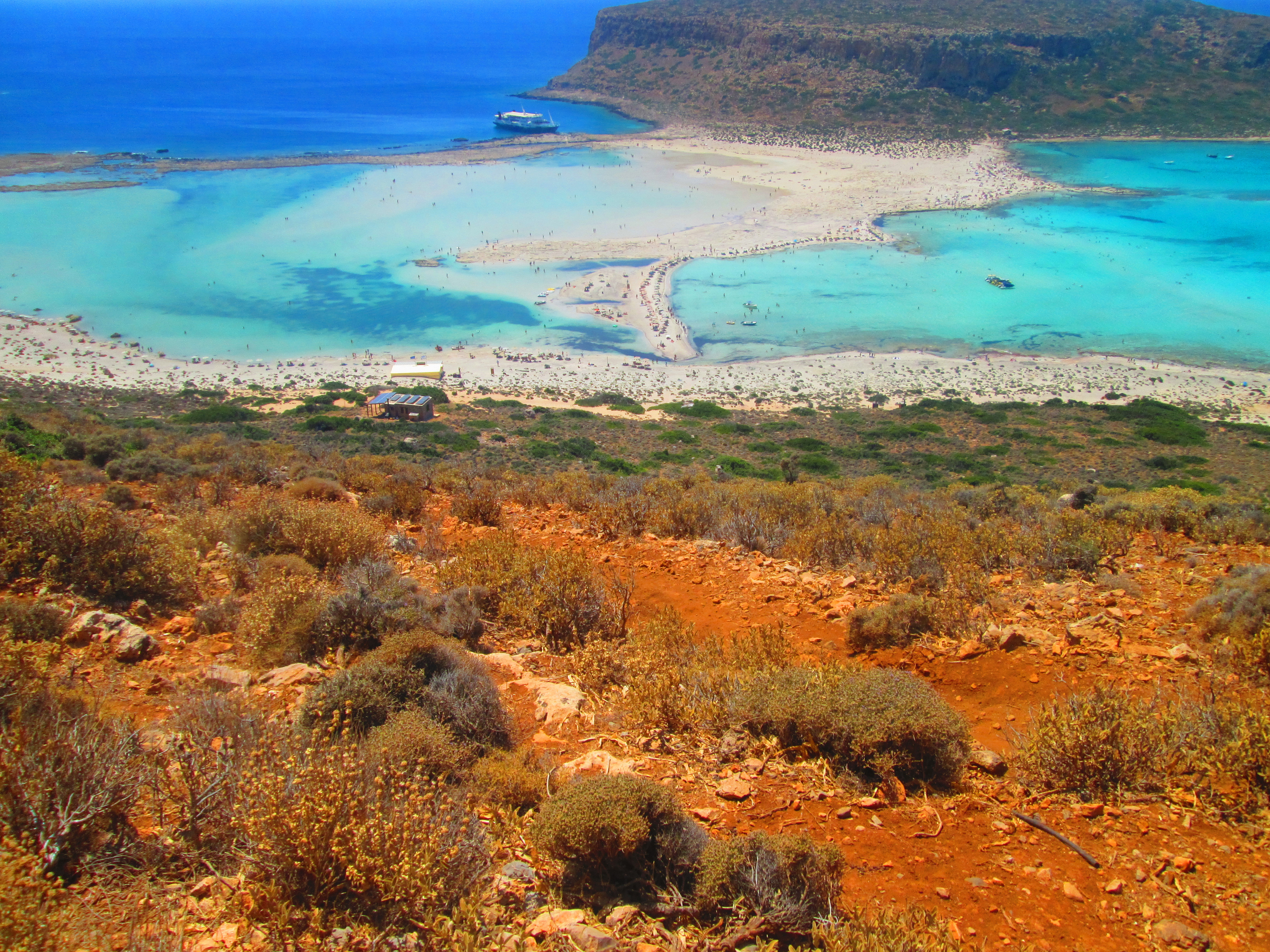 Balos Lagoon in Crete. The lagoon is visible on the left, separated from the sea by a small barrier island.